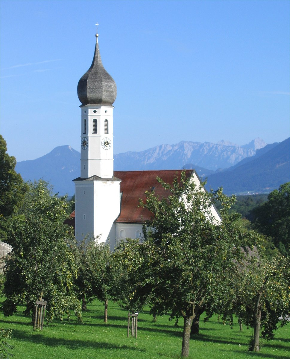 Dettendorf (Bad Feilnbach), view of St Corbinian's Subsidiary Church from north-west with Kaisergebirge mountain range and Kranzhorn (left) in background.